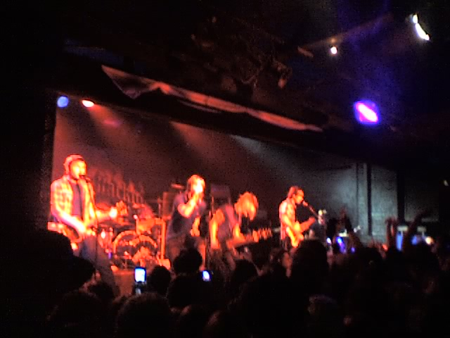 I took this photo at a gig in Sheffield, England on the 9th October 2008.